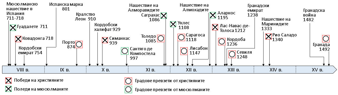 Reconquista Timeline